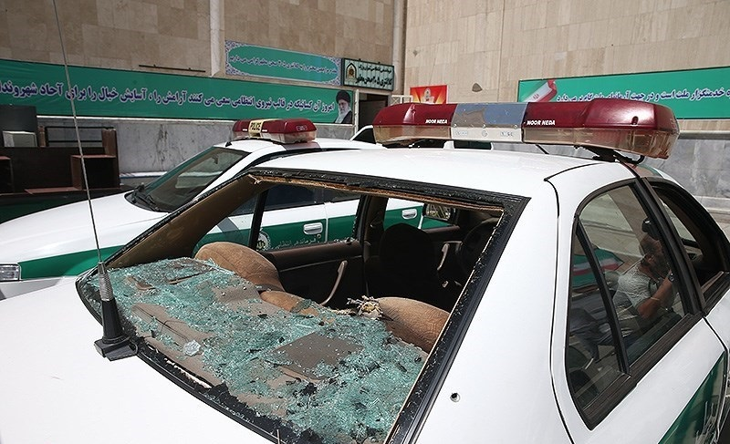 Reconstruction of Terrorist Attacks to the Mausoleum of Ruhollah Khomeini